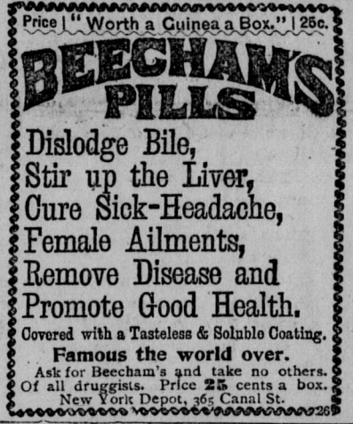 Advertisement printed in newspaper Los Angeles Herald on July 20, 1893, for Beecham's Pills